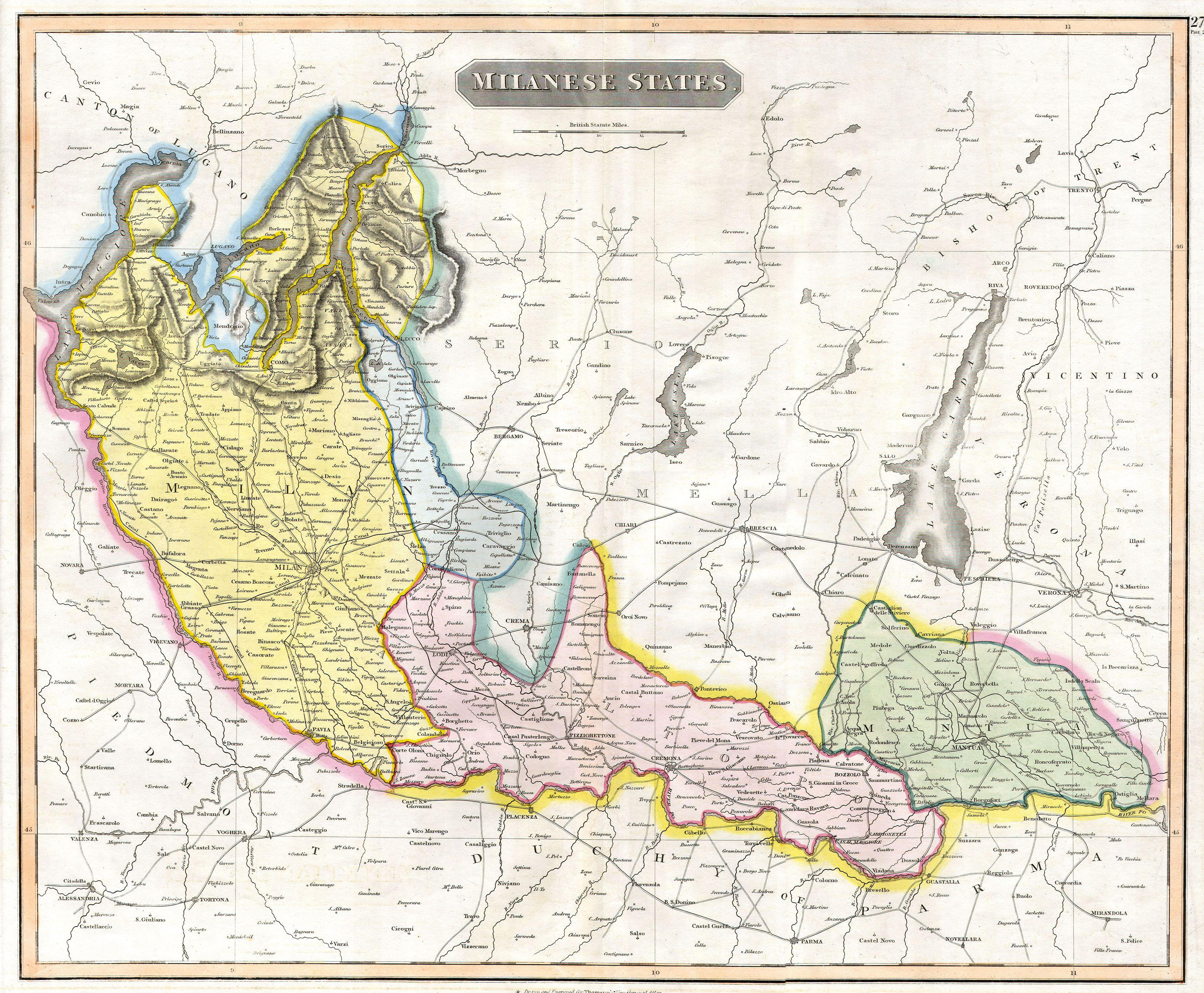 This fascinating hand colored 1815 map by Edinburgh cartographer John Thomson depicts the Milanese States of northern Italy. These include Milan, Alto Po, and Mantua. Bounded on the south by Parma and on the west by Piedmont.